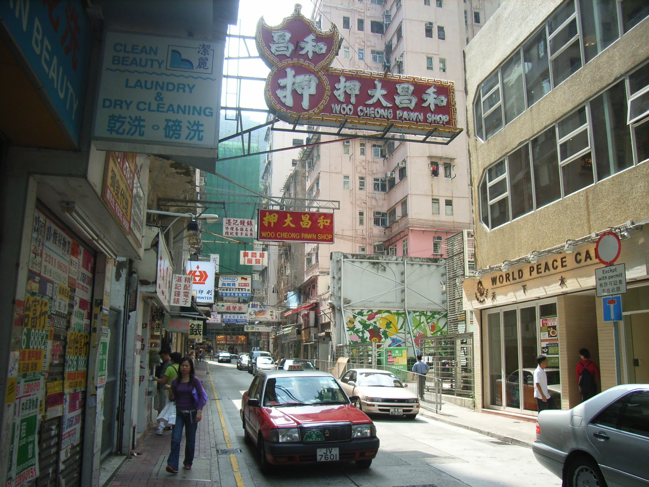 灣仔舊區街道 Wanchai old streets, Hong Kong. (A1 Wong East).